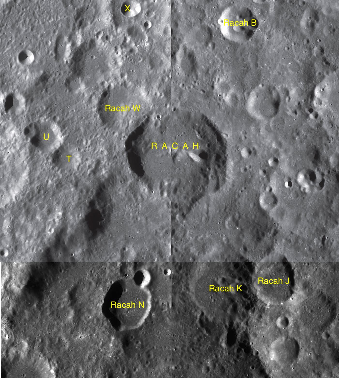 Parts of the charts LAC-86, LAC-104 used for the presentation.